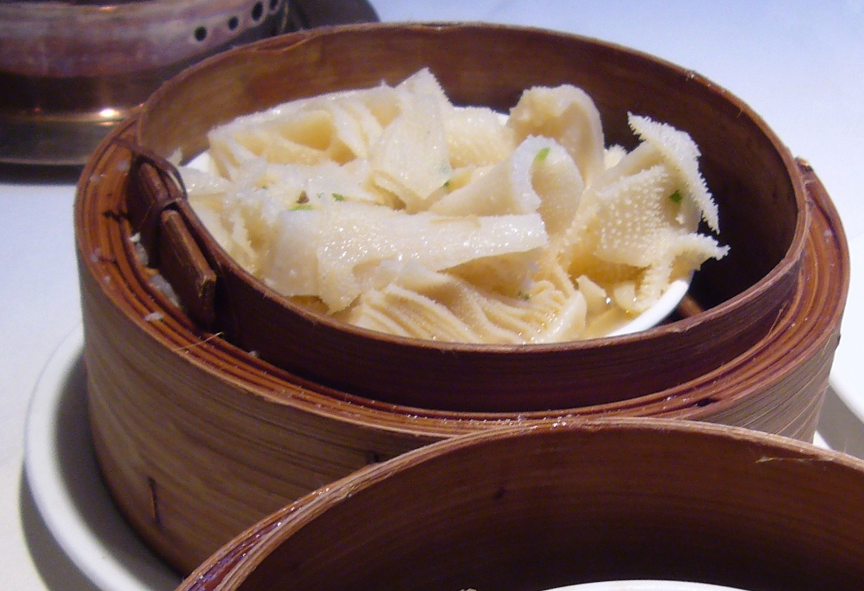 A bowl of boiled tripe. This is a cropped and rotated version of the original.